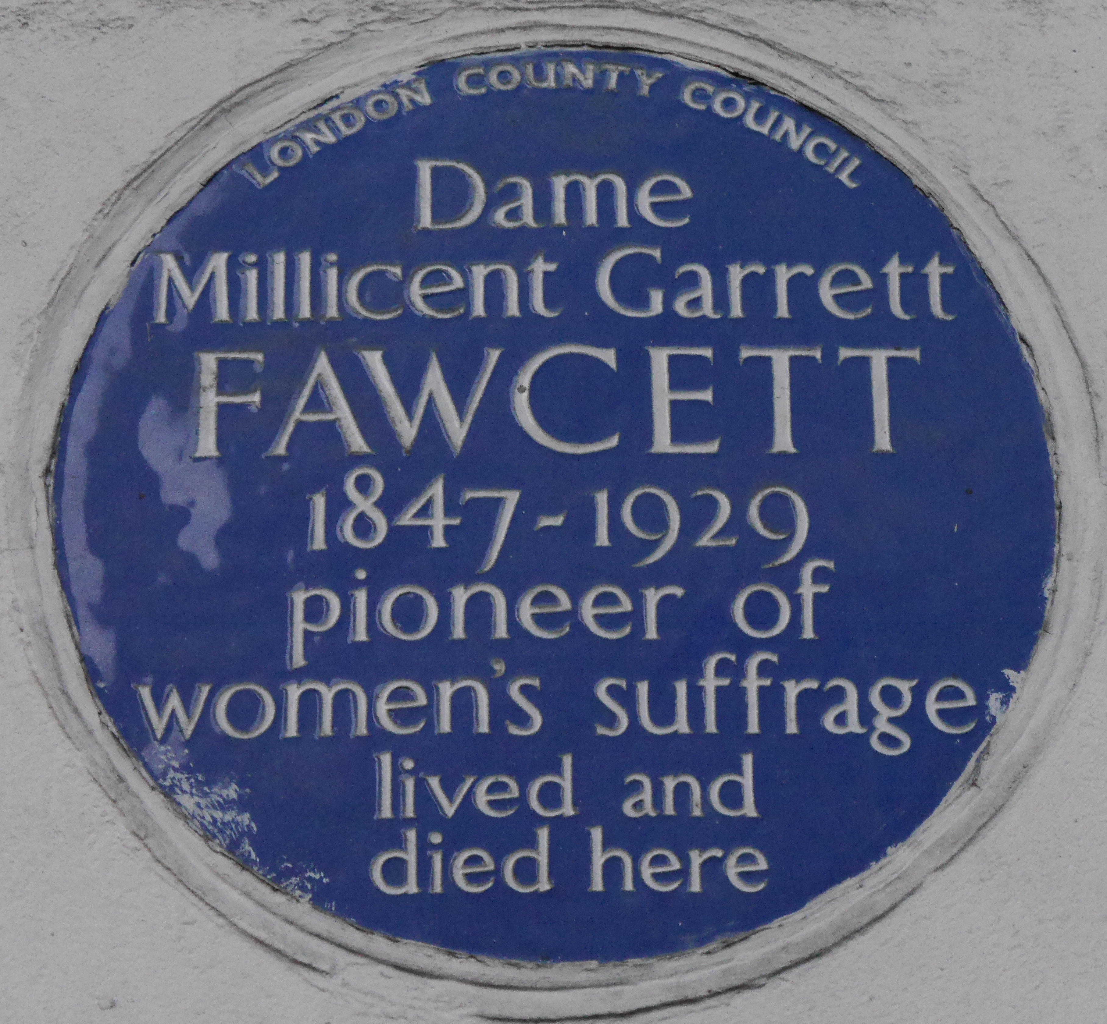 Millicent Garrett Fawcett 2 Gower Street blue plaque